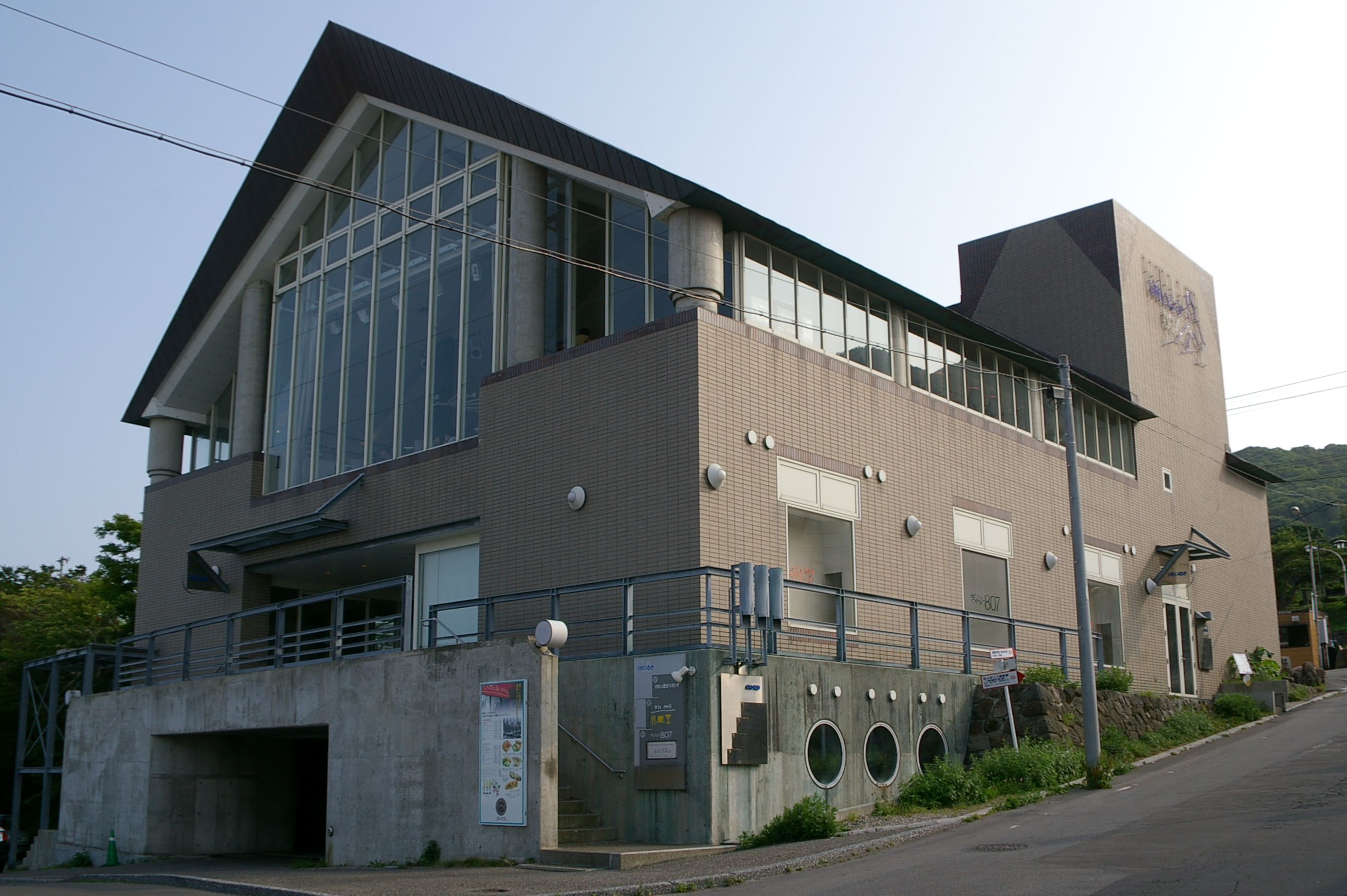 Photograph of Iruka 807 Building, the radio studio building of FM Iruka in Hakodate, Hokkaido, Japan.